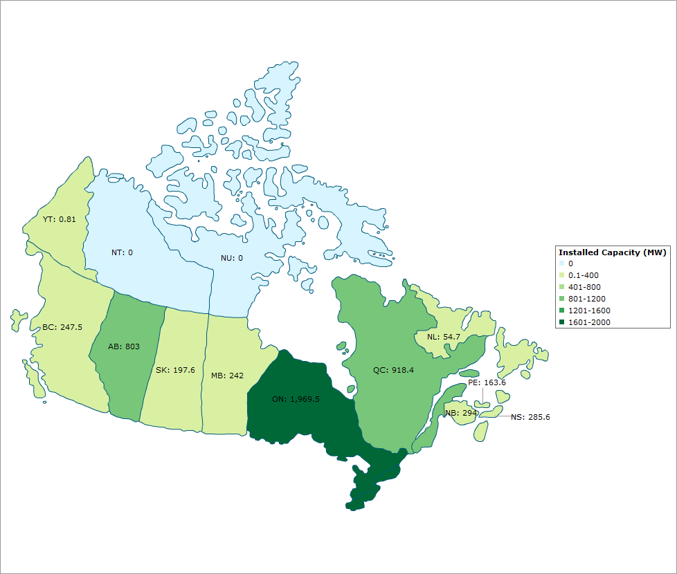 Installed wind power capacity by Canadian province as of January 2012. Data collected from